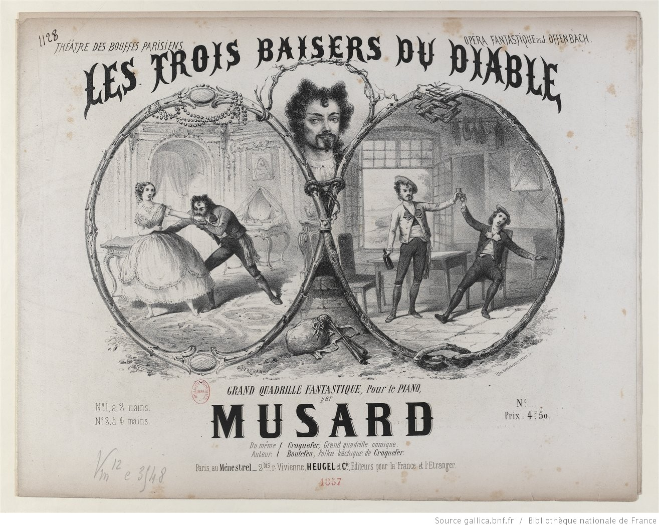 Quadrille From Offenbach's operetta Les trois baisers du diable, front page with scenes from the operetta, lithography by (A.-V.) Bertrand